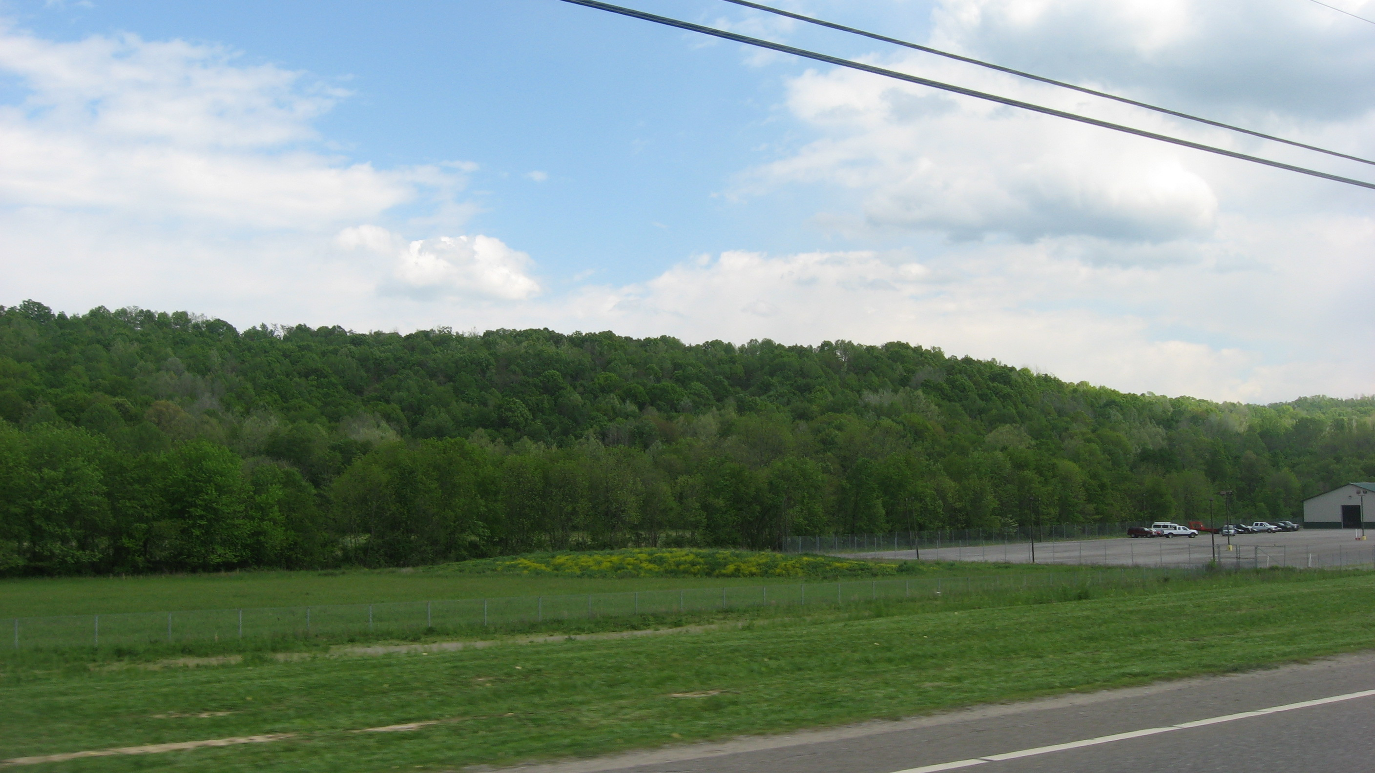 Fields and hills south of Crooksville in southern Harrison Township, Perry County, Ohio, United States. The scene is immediately north of the Crooksville Airport, and the picture is taken from a southbound car on State Route 93.